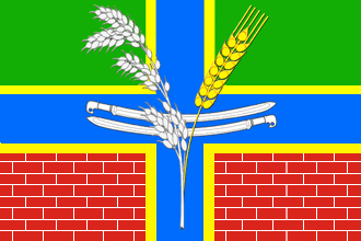 Flag of Kirovskoe rural settlement, Krasnodar Territory, Russia